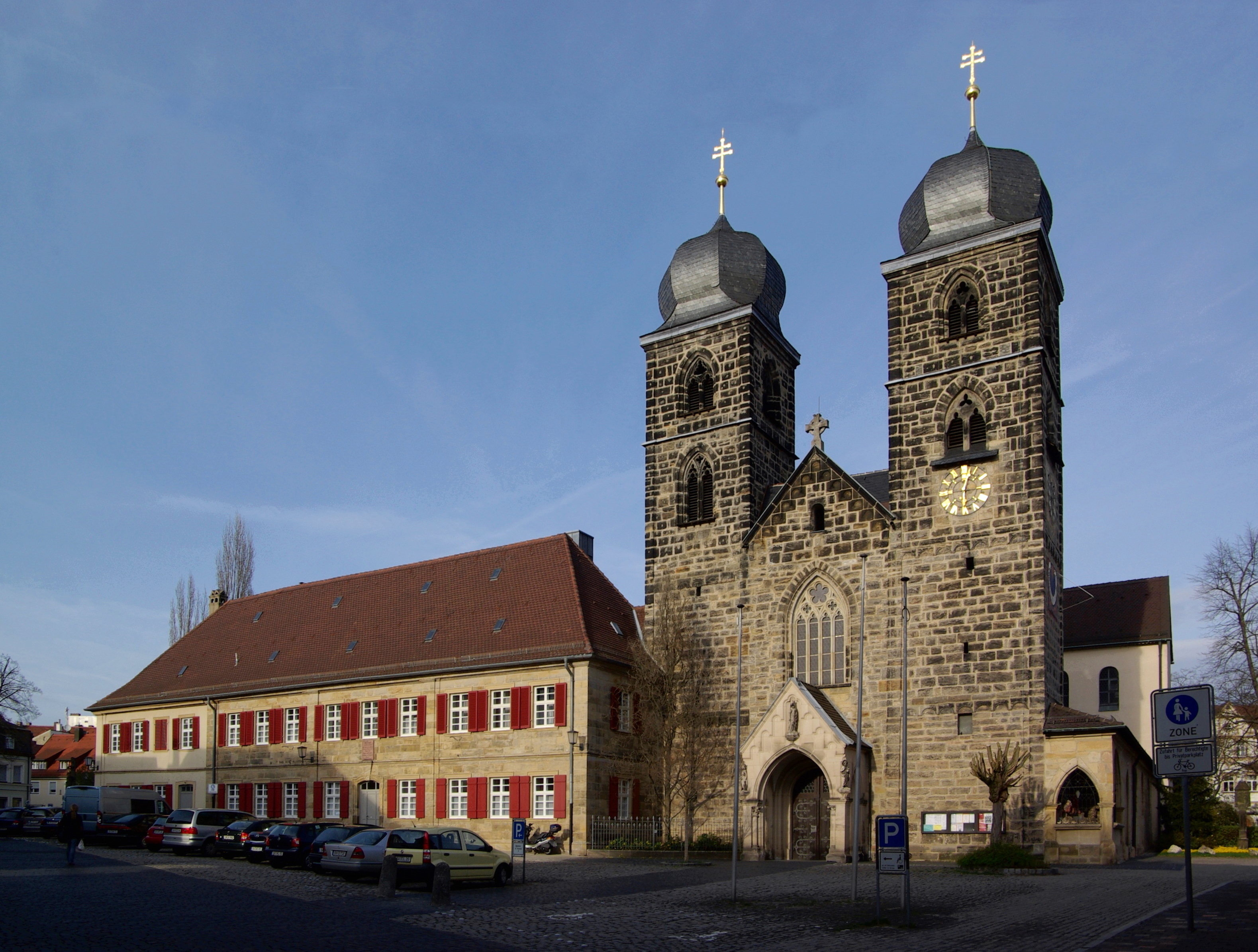 Germany, Bamberg, Collegiate church St. Gangolf